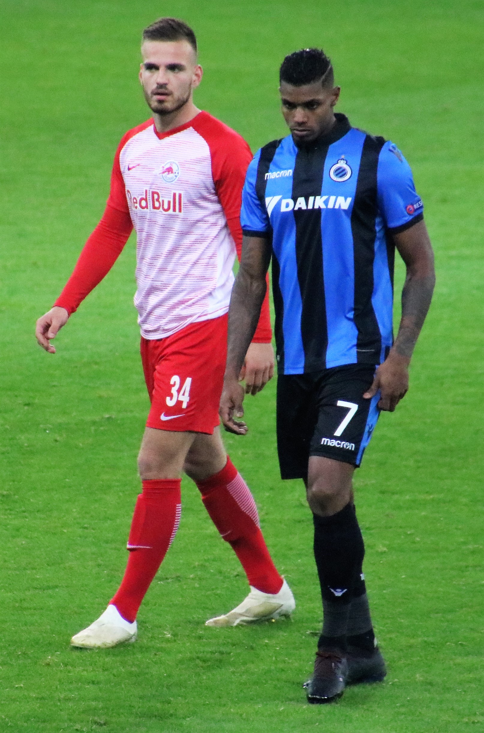 UEFA Euro League round of 32